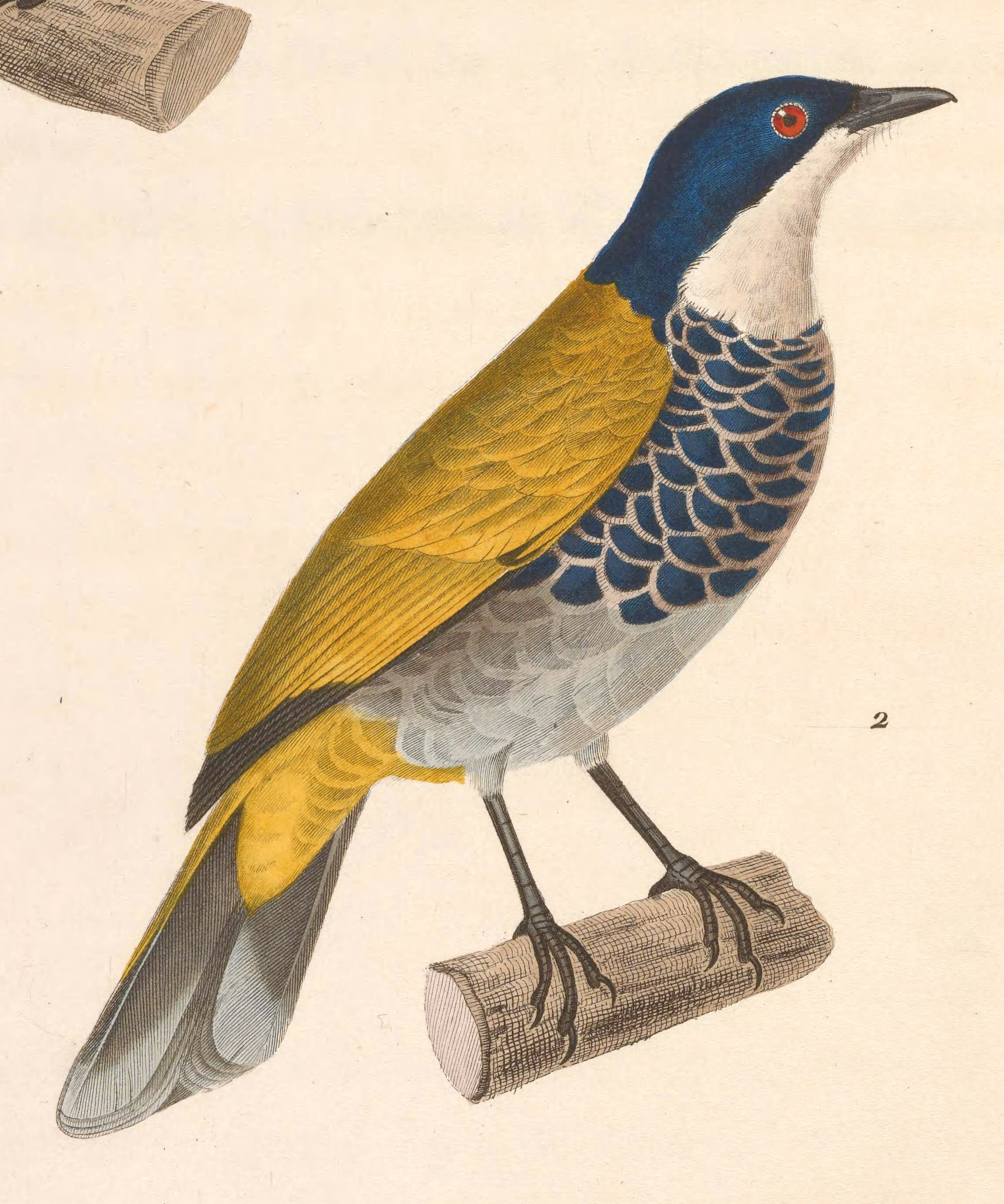 « Ixos squamatus » = Pycnonotus squamatus (Scaly-breasted Bulbul) - male